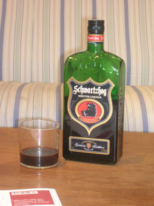 Schwartzhog - "Krauter" liqueur (herb liqueur) in presentation bottle.